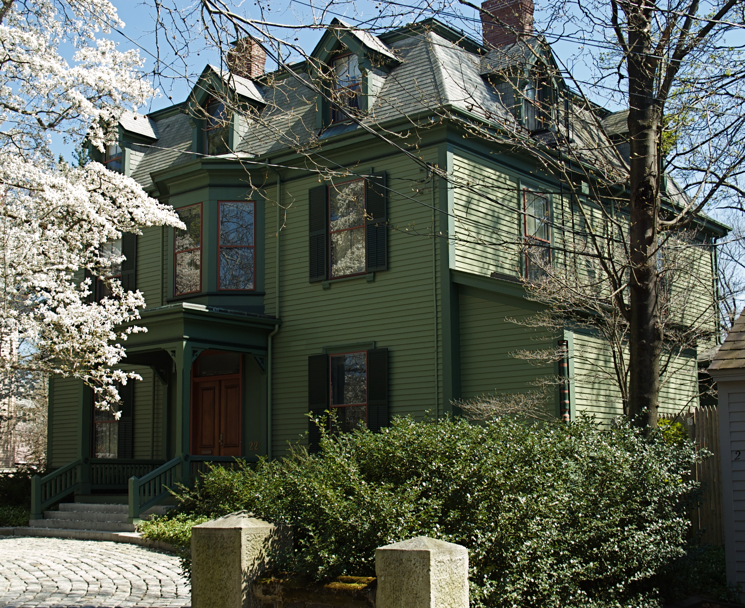 The George D. Birkhoff House in Cambridge, Massachusetts, listed on the National Register of Historic Places.